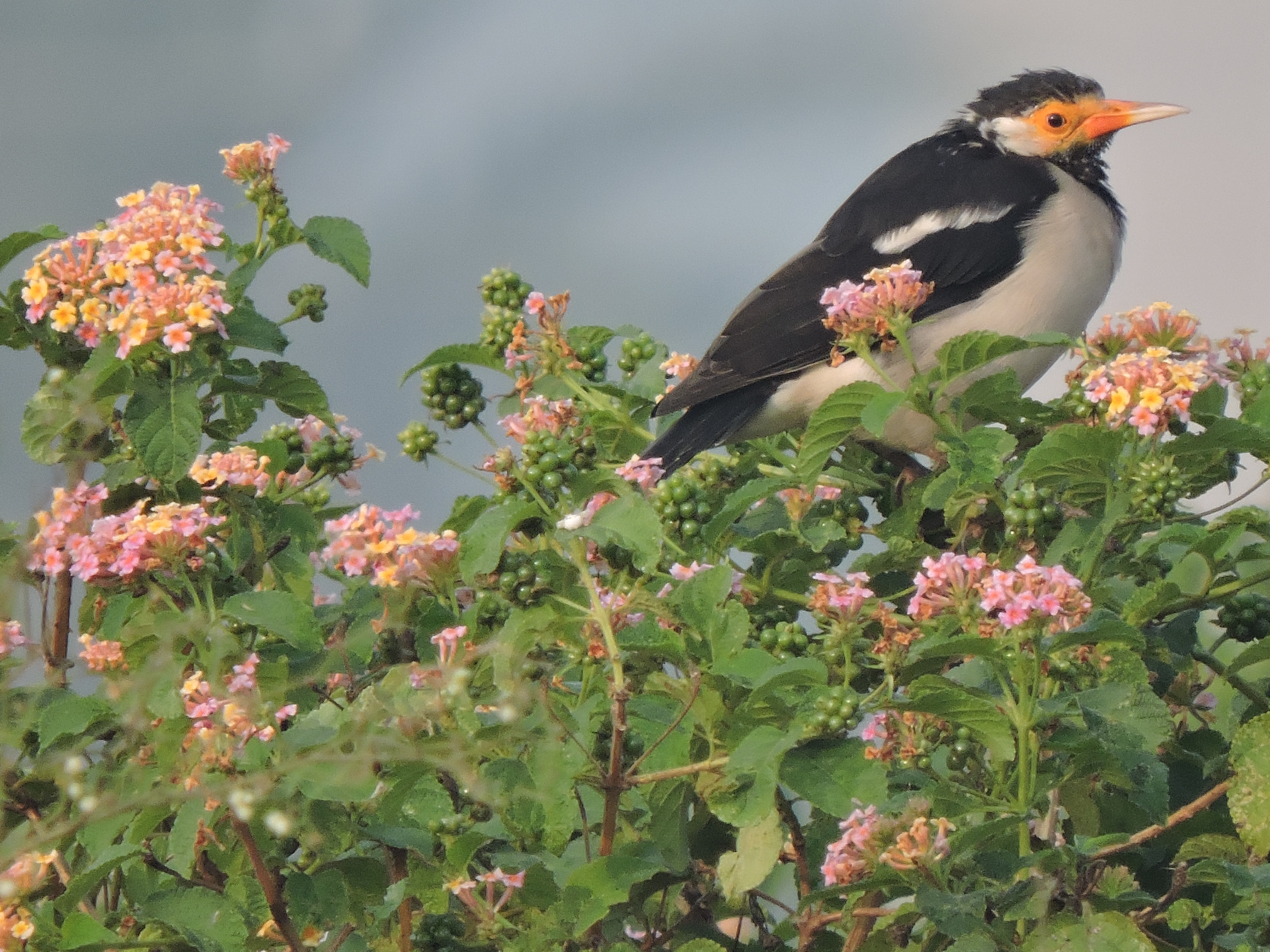 Pied myna, Chappad Chidi , Mohali, Punjab, India